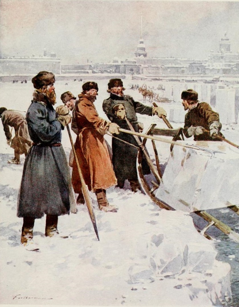 Ice cutting on the Neva, c. 1913. Painted by Frédéric de Haenen